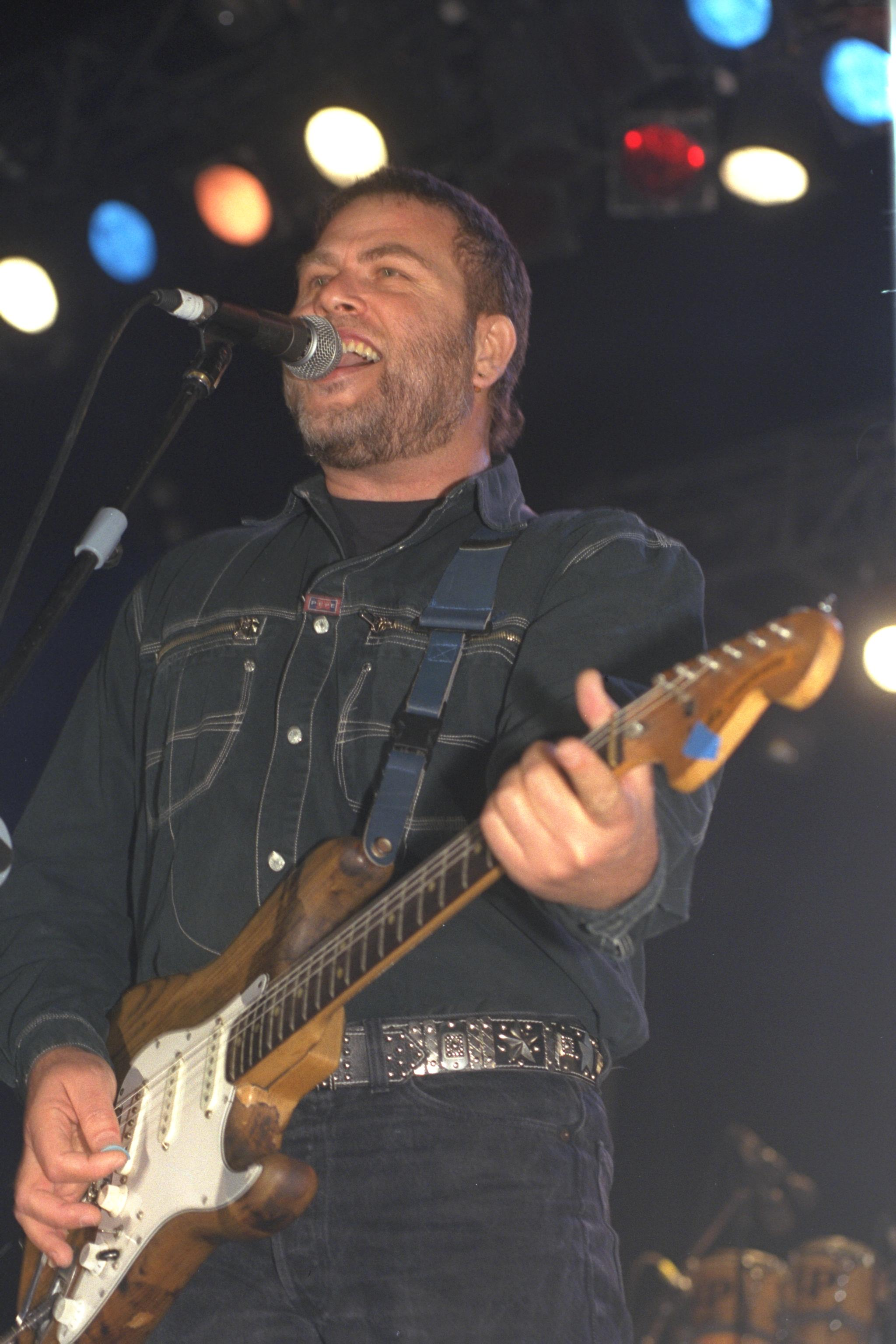 Singer Yehuda Poliker performing at a rock festival in the Red Sea. יהודה פוליקר מופיע בפסטיבל ערד Photo: KOREN ZIV.